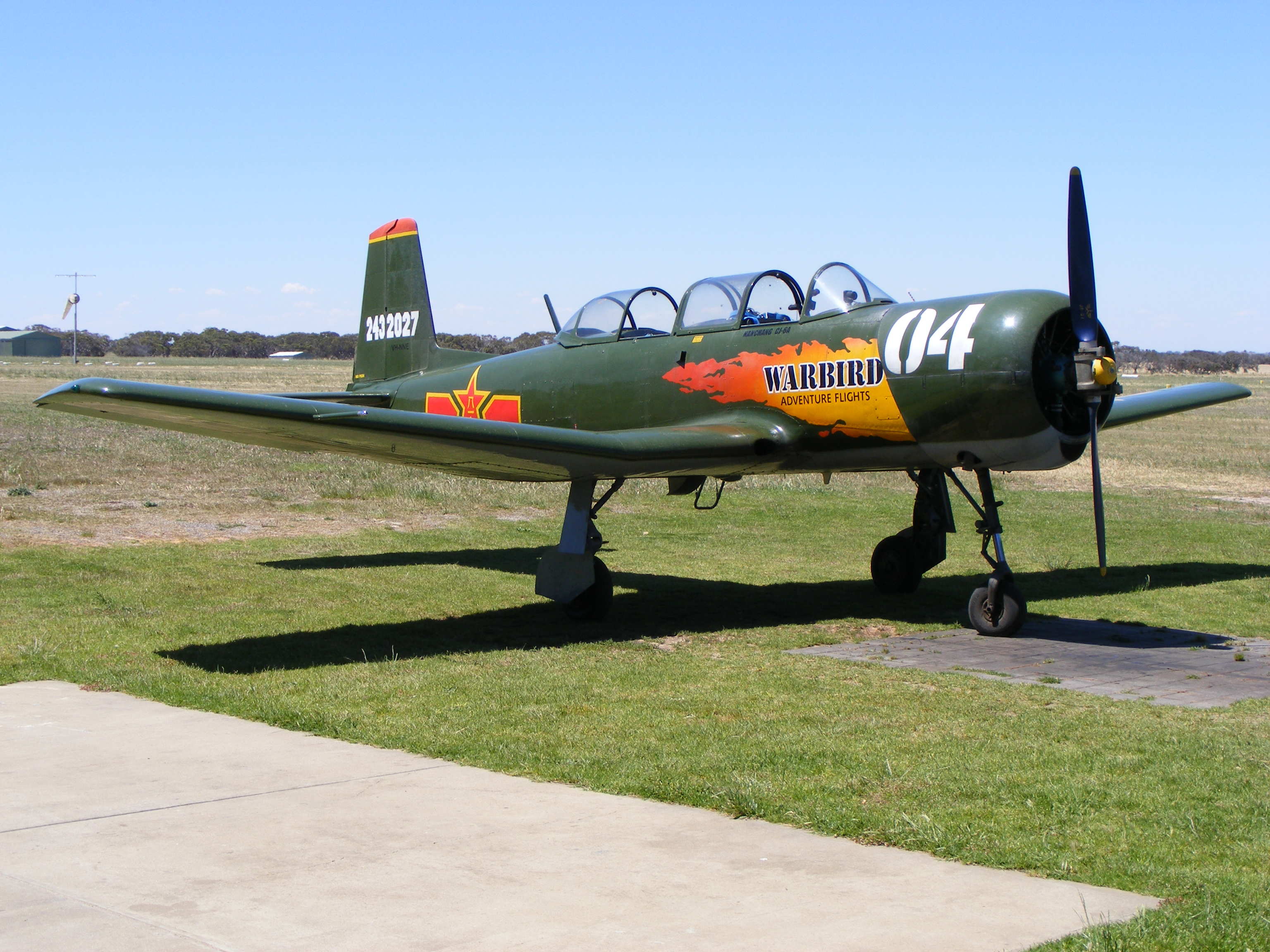 Front quarter view of a Nanchang CJ-6 (VH-NNE) used by "warbirds" acrobatic flight company. Goolwa, South Australia